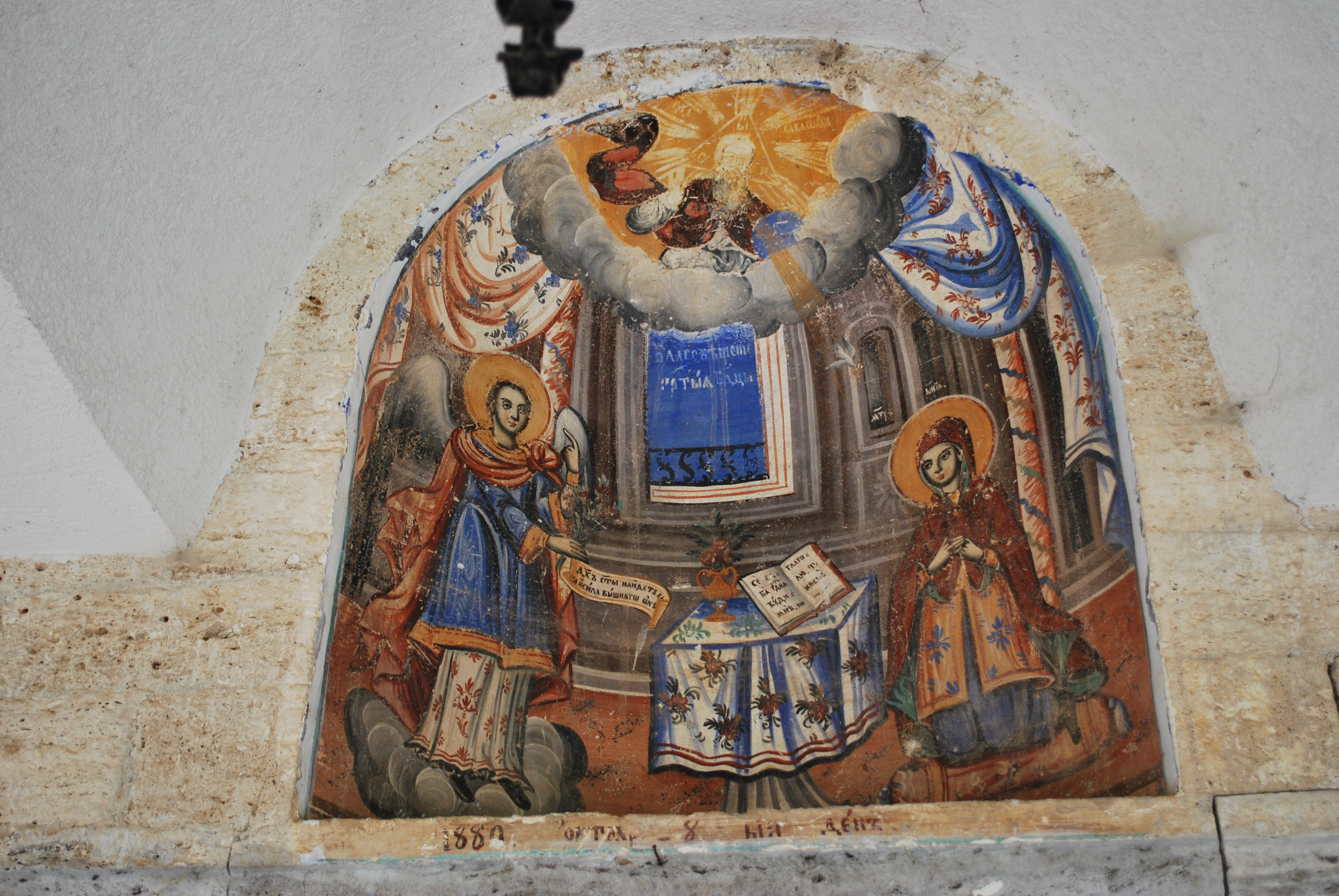 Kičevo Monastery, Macedonia